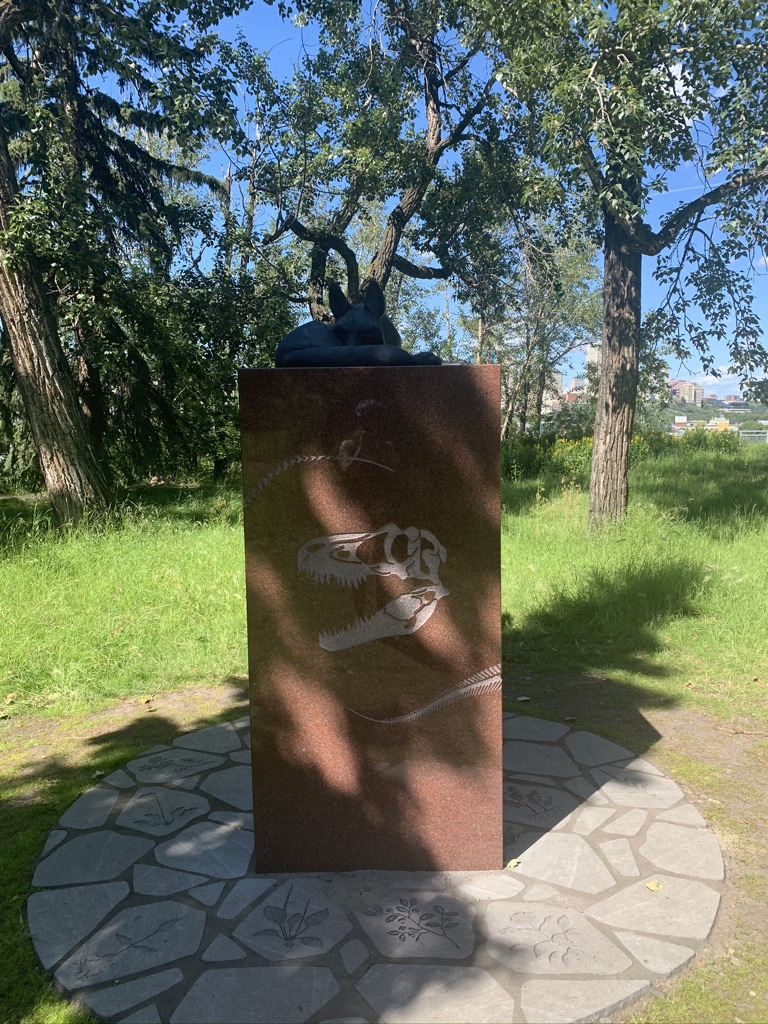 Reign by Mary Anne Barkhouse at the Indigenous Art Park ᐄᓃᐤ (ÎNÎW) River Lot 11∞